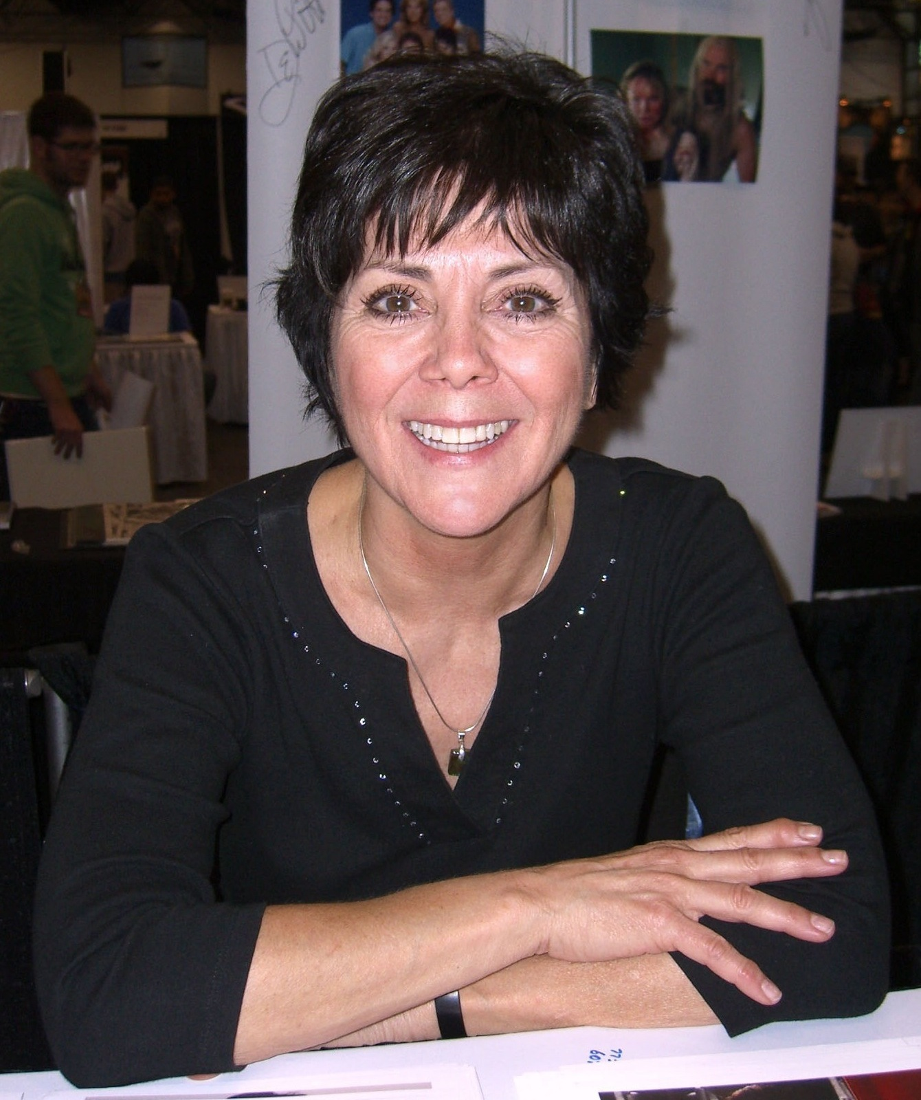 Actress Joyce DeWitt at the New York Comic Convention in Manhattan, October 10, 2010. Photo by Luigi Novi. This photo may be used, modified and published for any purpose, only if the photographer is visibly credited in each instance in which it is used. (See licensing information below.) Publication of this photo without proper attribution constitute copyright infringement. For more information on my photos, you can contact me here.